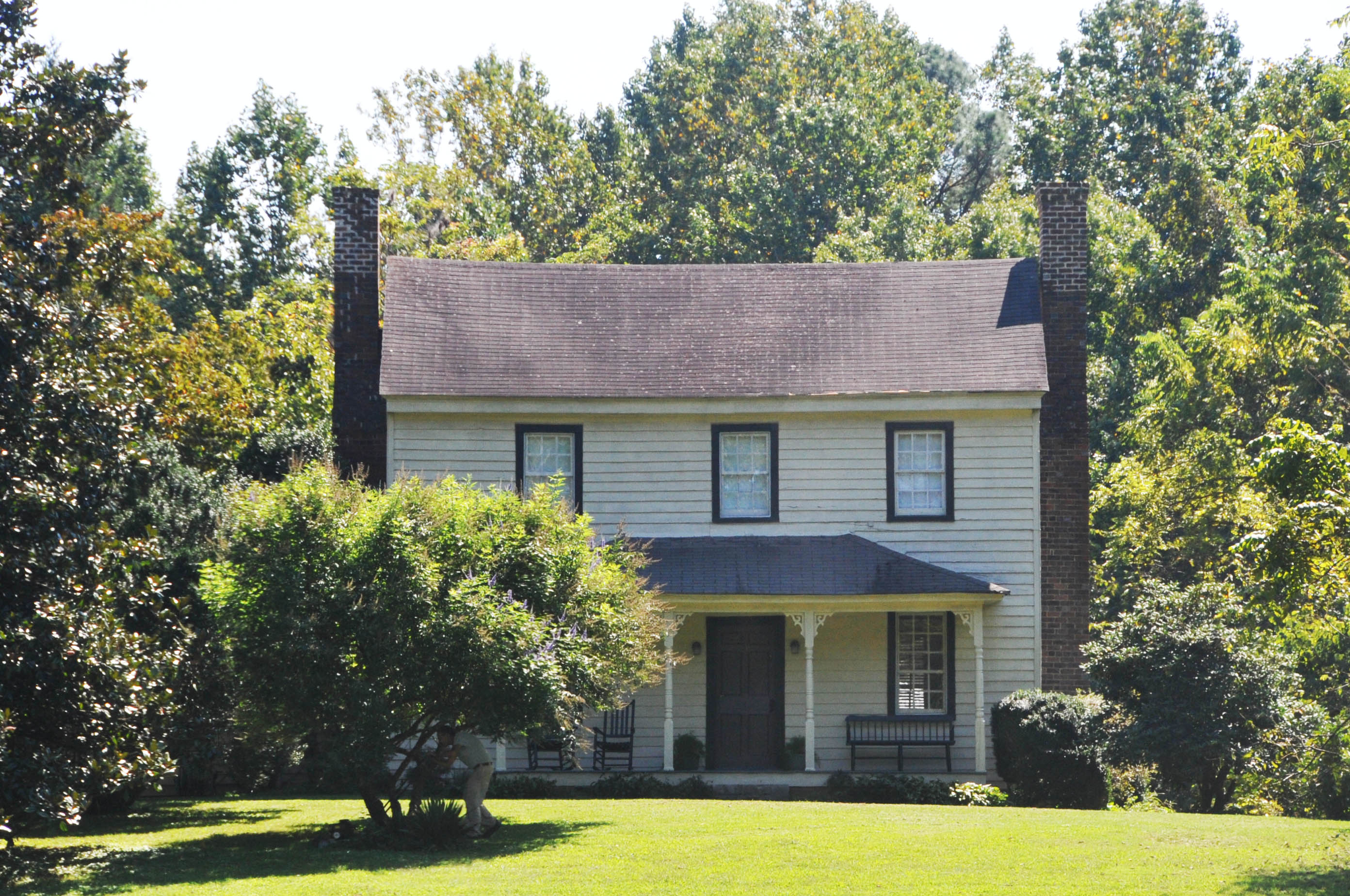 CIRCA 1820; LOCALLY KNOWN AS THE MAUDE FAUCETTE HOUSE WHO WAS LAST DESCENDENT TO LIVE IN THE HOUSE AND DIED IN 1983